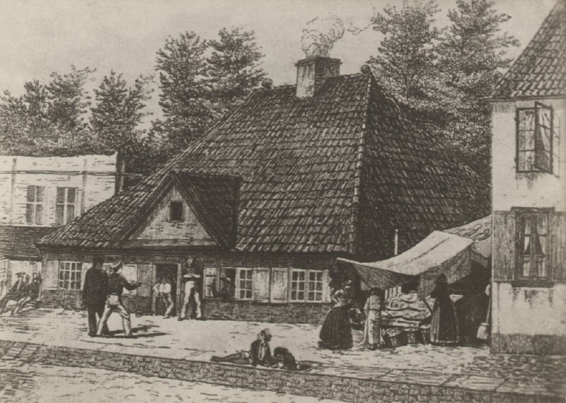 Vrokkens Bod at Esplanaden in Copenhagen, Denmark. Demolished.